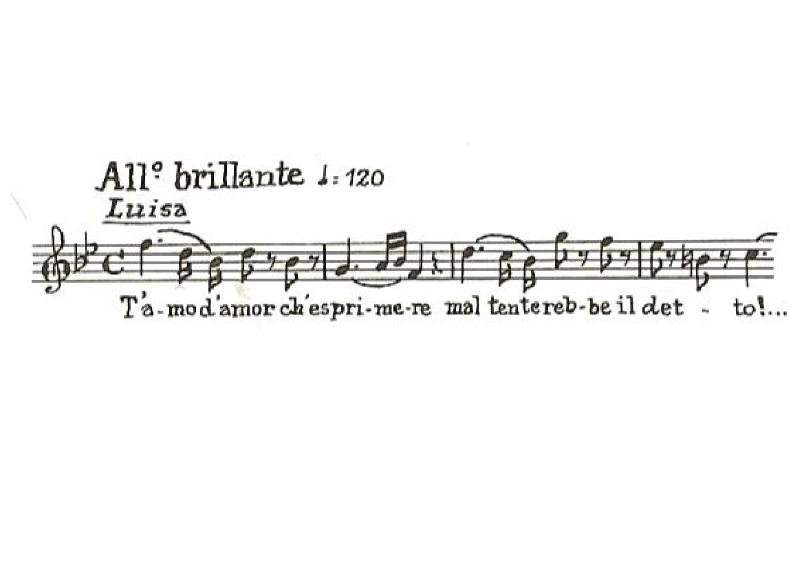 Score fragment from Giuseppe Verdi's 1849 opera Luisa Miller